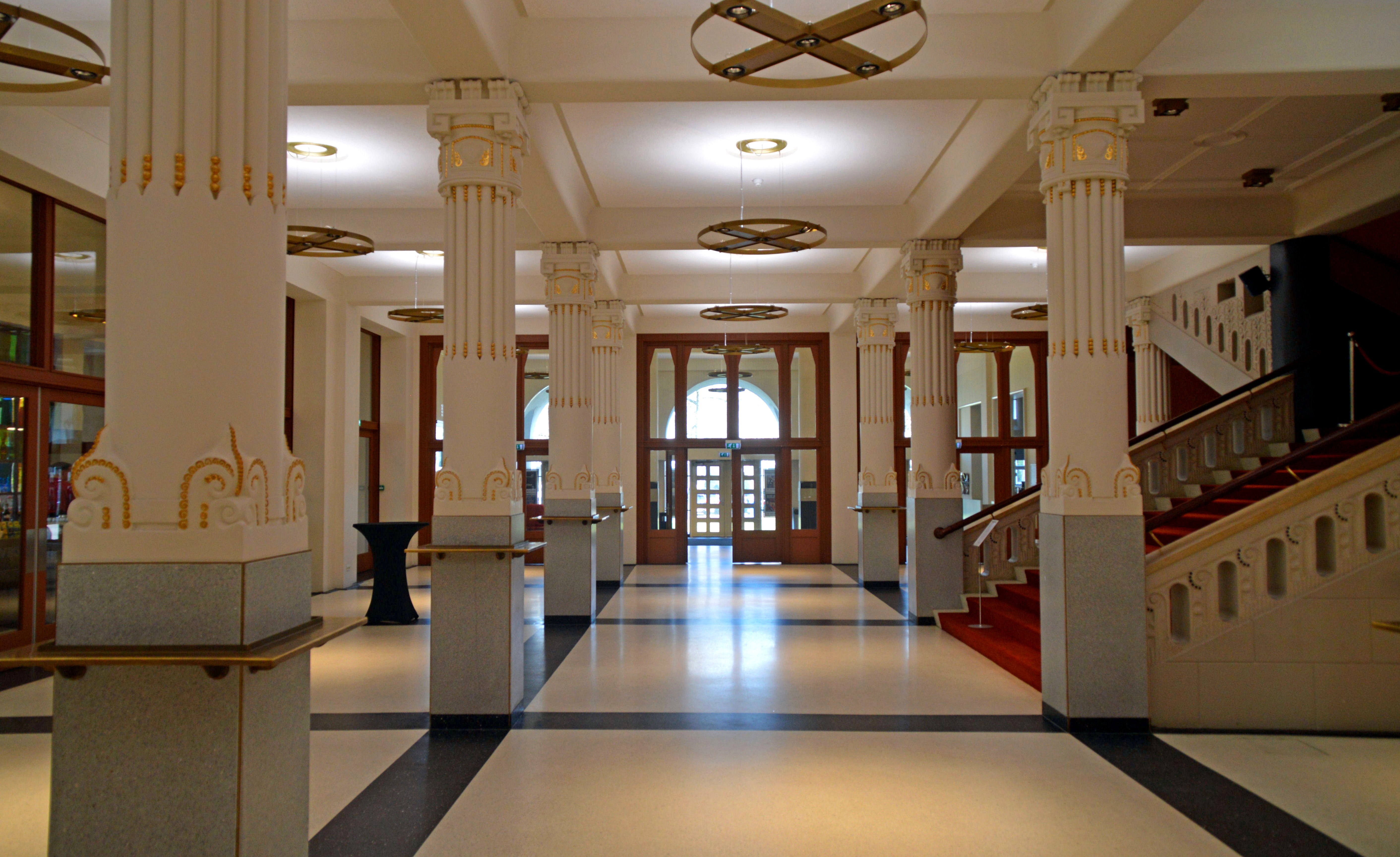 Concertgebouw de Vereeniging Nijmegen Zuilenhal Entrance